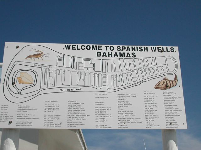 Picture of a welcome sign in Spanish Wells, Bahamas